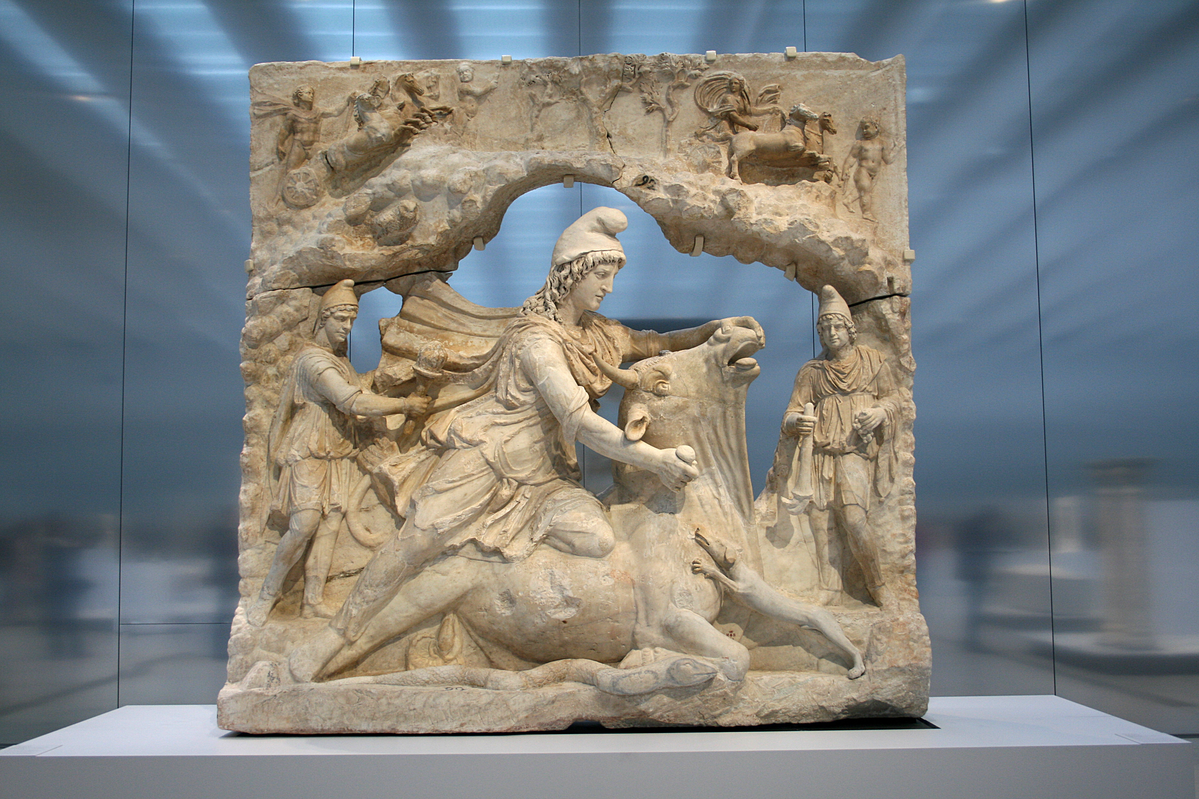 Marble relief of a Mithraic tauroctony scene from the Capitol, Rome, Italie, of the Roman cult figure of Mithras sacrificing a bull - Musée du Louvre-Lens, on exhibit at the Galerie du Temps, secteur Antiquité / Empire romain. Note: the head is a statuary that shows Mithras looking at the bull or towards the viewer are the result of Renaissance-era restorations of monuments that were missing a head; they are incorrect reconstructions.